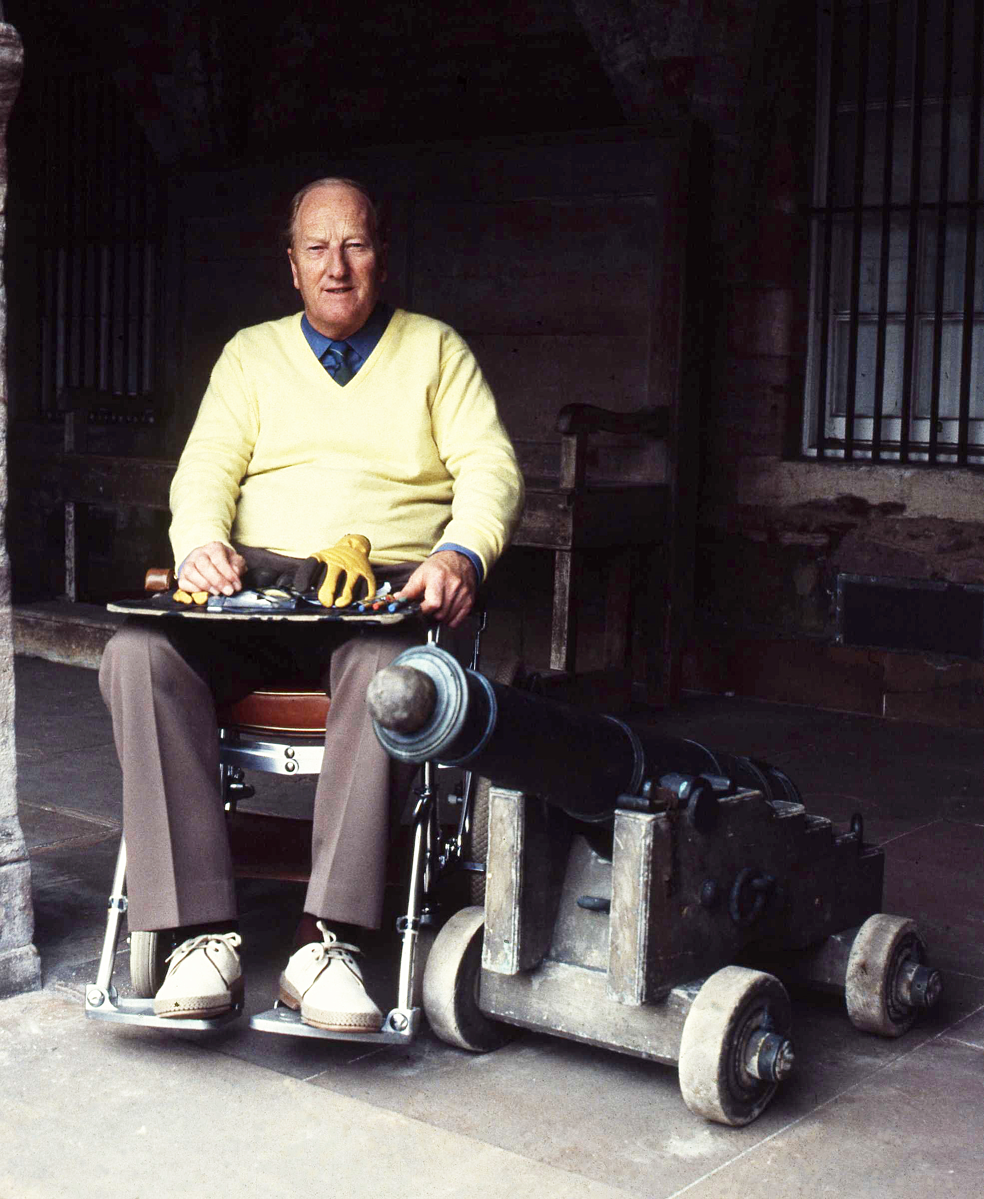 Portrait of John Scott, 9th Duke of Buchleuch & 11th Duke of Queensberry at Drumlanrig Castle, Scotland